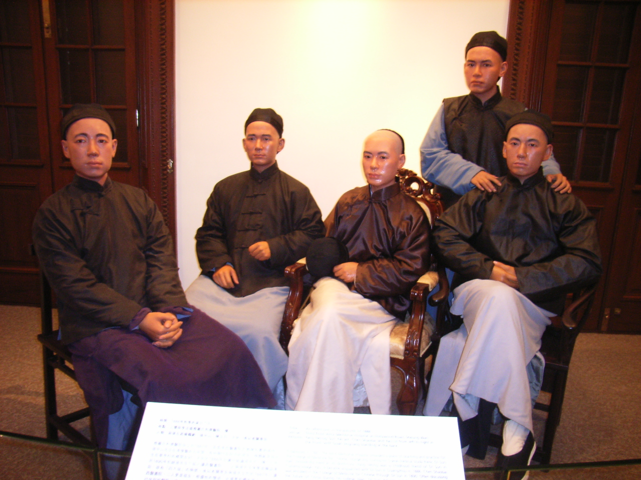 孫中山之四大寇 蠟像造型, Dr. Sun Yat-sen Museum 孫中山紀念館展品, Kom Tong Hall (甘棠第) at 7 Castle Road, Central, Hong Kong.